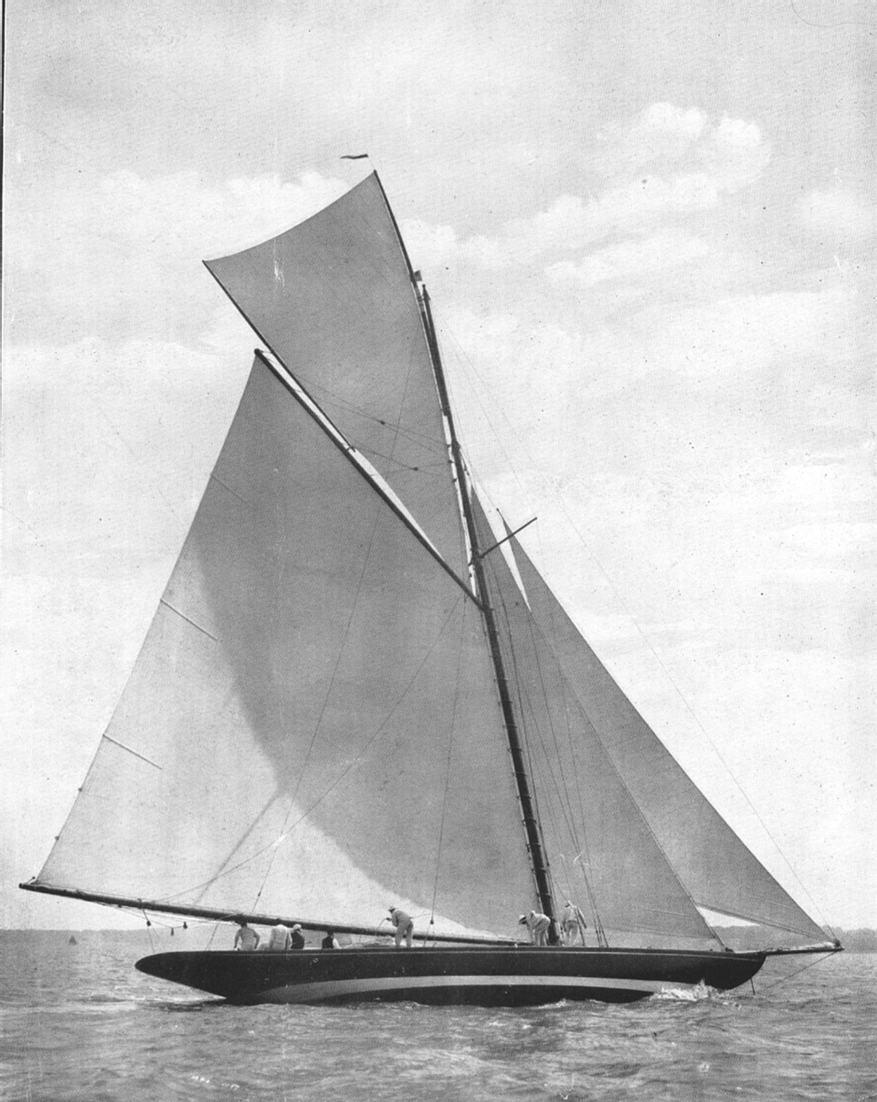 the 15mR racing cutter, Mao'oona